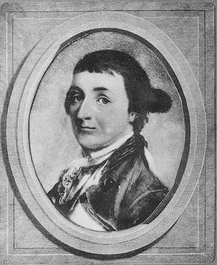 Captain Gustavus Conyngham, Continental Navy. Eighteenth Century print, after a miniature portrait by Louis Marie Sicardi, reproduced in "Letters and Papers relating to the Cruises of Gustavus Conyngham", edited by Robert Wilden Neeser, 1915, and credited to the collections of James Barnes.